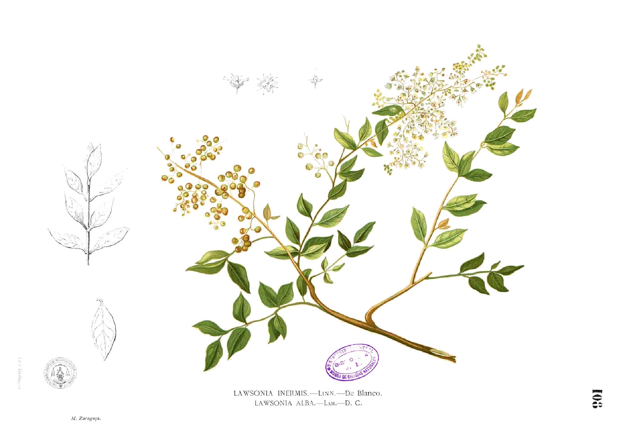 Plate from book